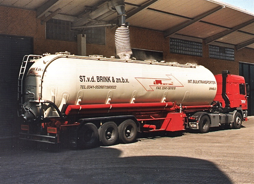 DAF 95-400hp tractor with 54 cubic mtr bulktrailor